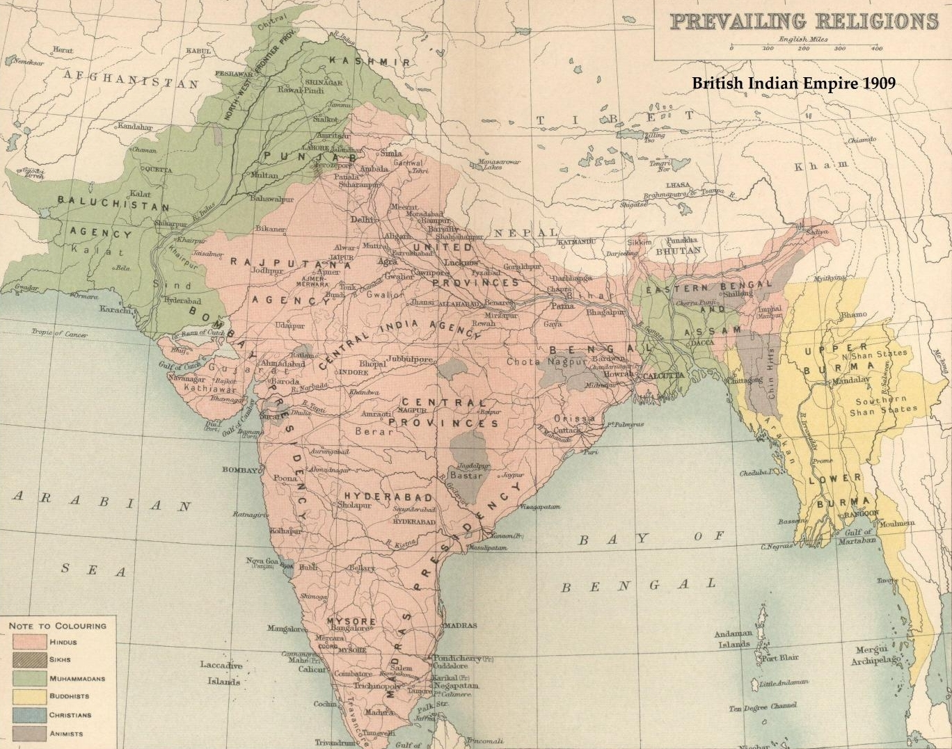 Map "Prevailing Religions of the British Indian Empire, 1909". Key: Pink Hindu Green Muslim Diagonal lines Sikh (small area in Punjab) Yellow Buddhist (Burma and Chittagong Hill Tracts) Blue Christian (Goa) Purple Animist (several inland hilly areas) The Andaman islands are not mapped.